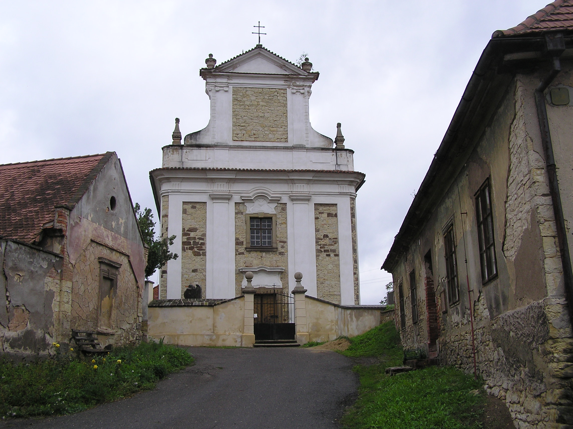 The Church of st. Matthew in Pnetluky, Czech Republic